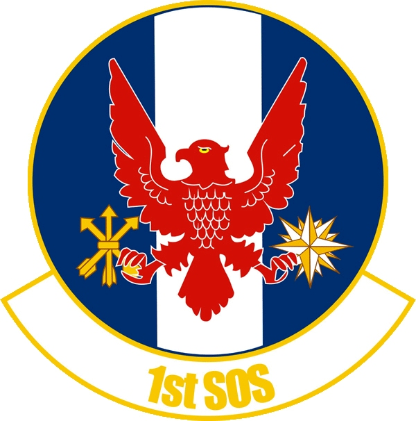 U.S. Air Force Special Operations Command's 1st Special Operations Squadron Patch